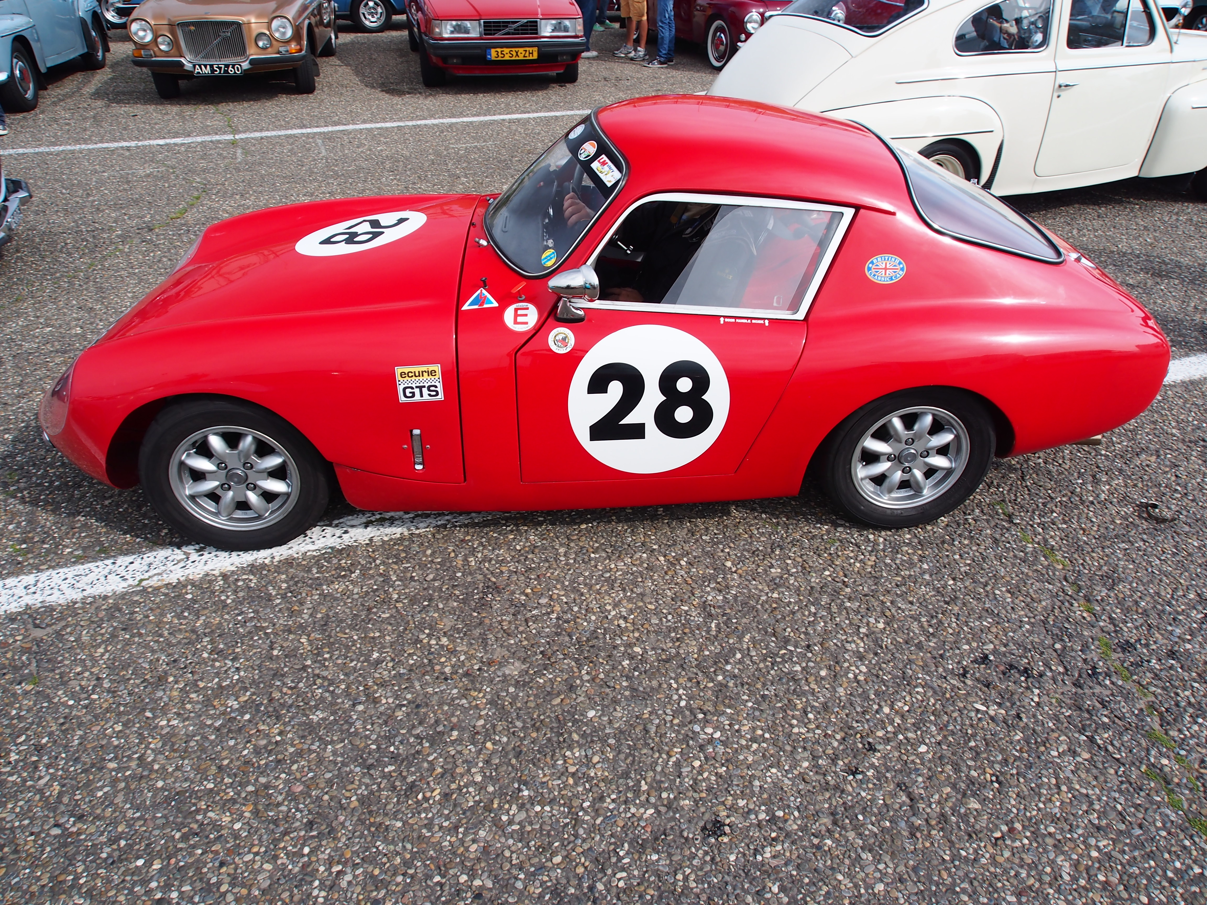 Photographed at the Nationaal Oldtimer Festival Zandvoort 2014, The Netherlands.